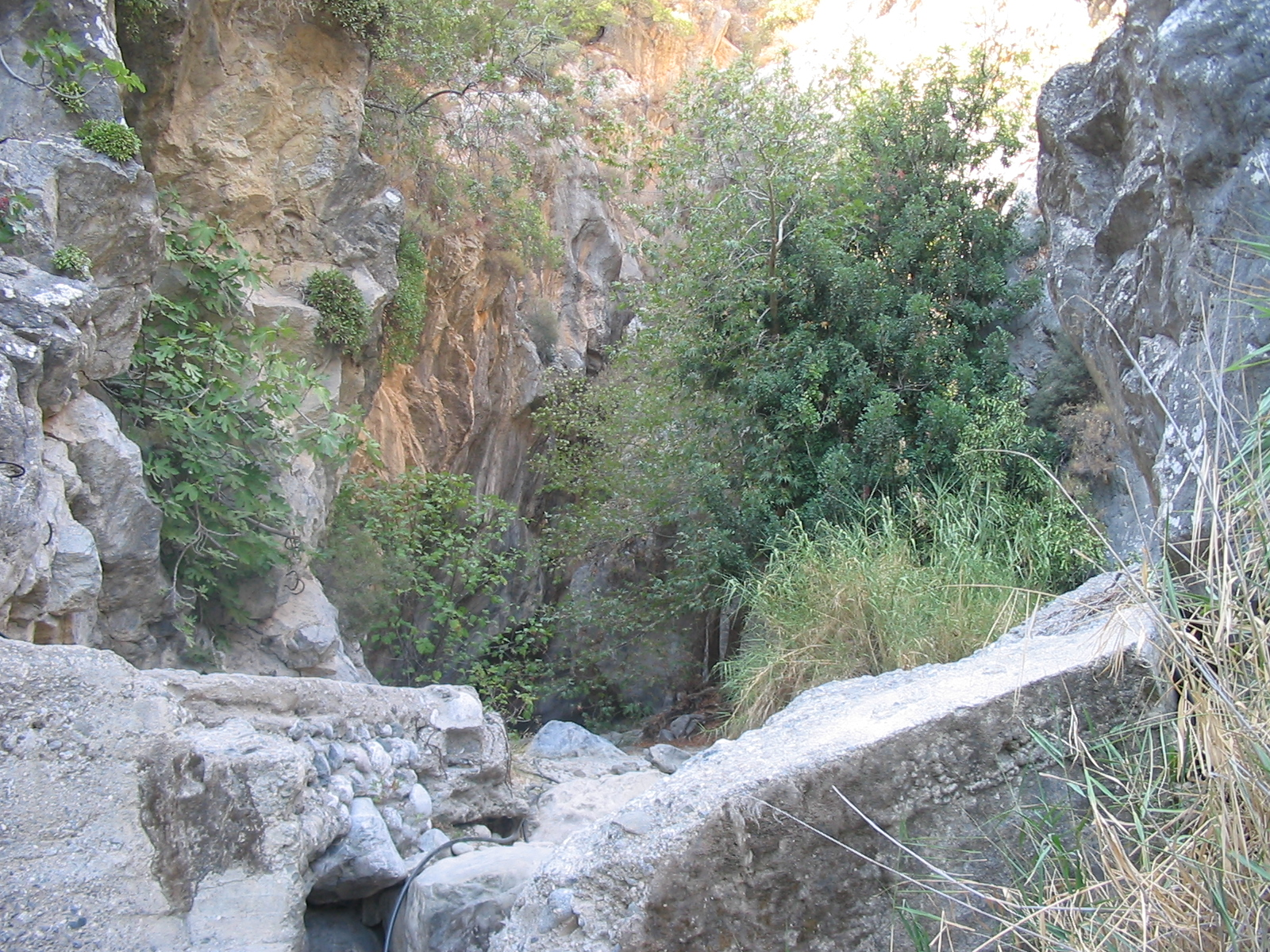 The Sarakinas gorge near Mithi in South Crete